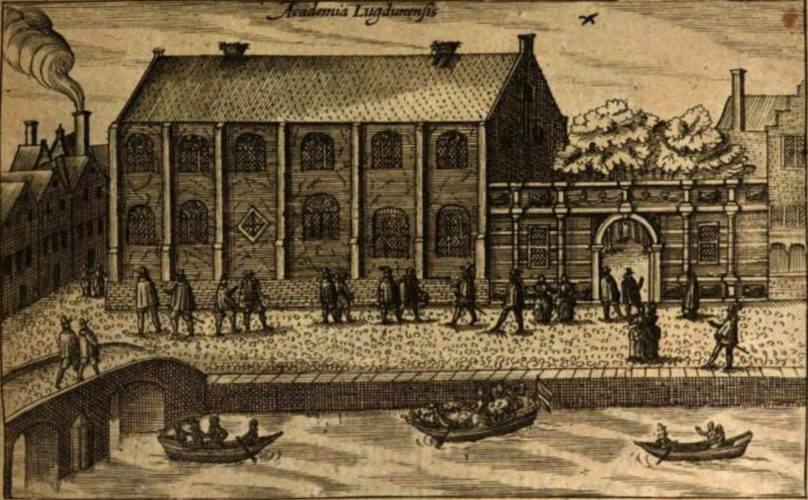 Illustrium Hollandiae Westfrisiae ordinum alma academia Leidensis / Dedication portraits and portraits of Leiden professors, along with 4 scenes of university, library, anatomical room & hortus